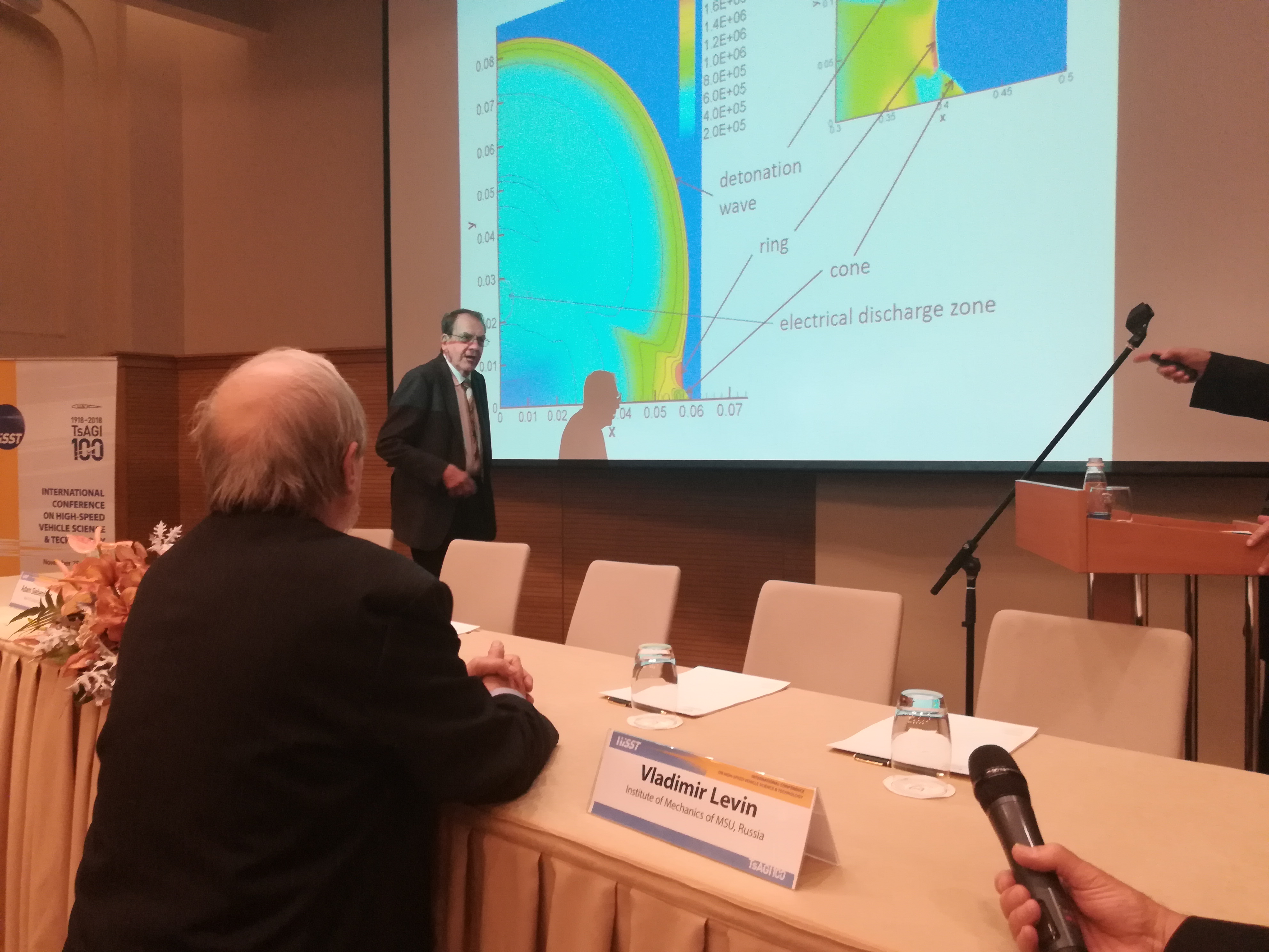 „International Conference on High-Speed Vehicle Science and Technology” (HiSST). Moscow, Russia on 26–29 of November.